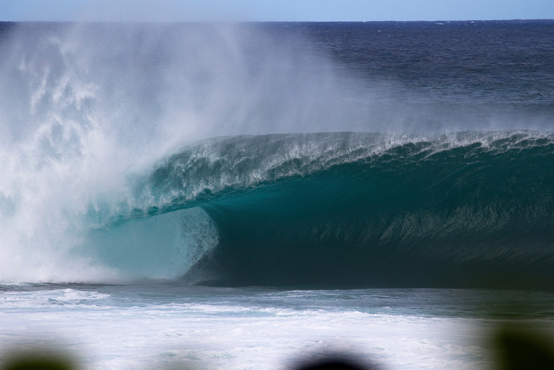 This photograph is of an empty wave at Banzai Pipeline taken in December 2011.